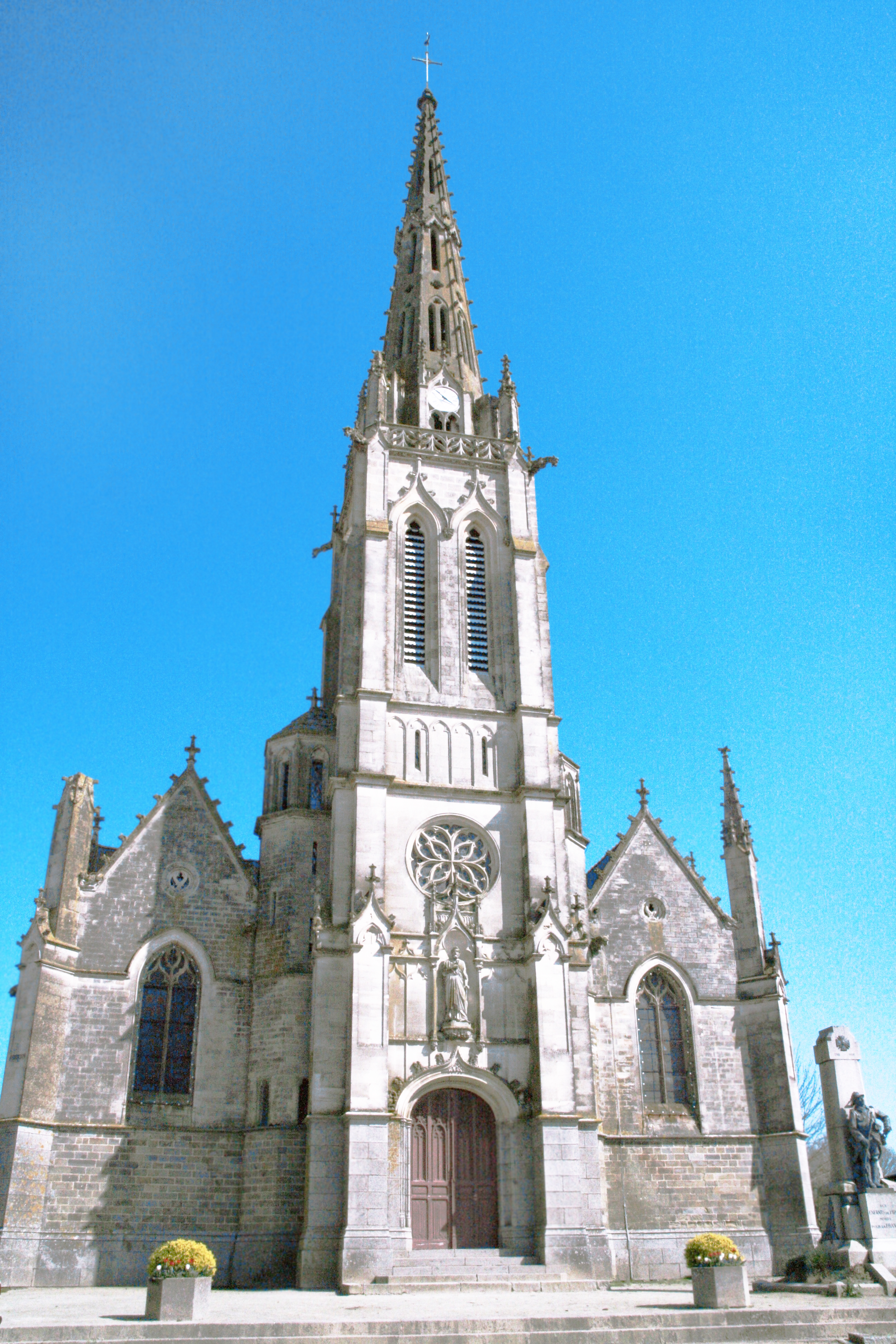 Saint-Peter-and-Saint-Paul's church, village of Piré-sur-Seiche, department of Ille-et-Vilaine, France. Church built in 16th and 17th centuries ; top of the Bell tower, built in 1874, is a gothic revival architecture.